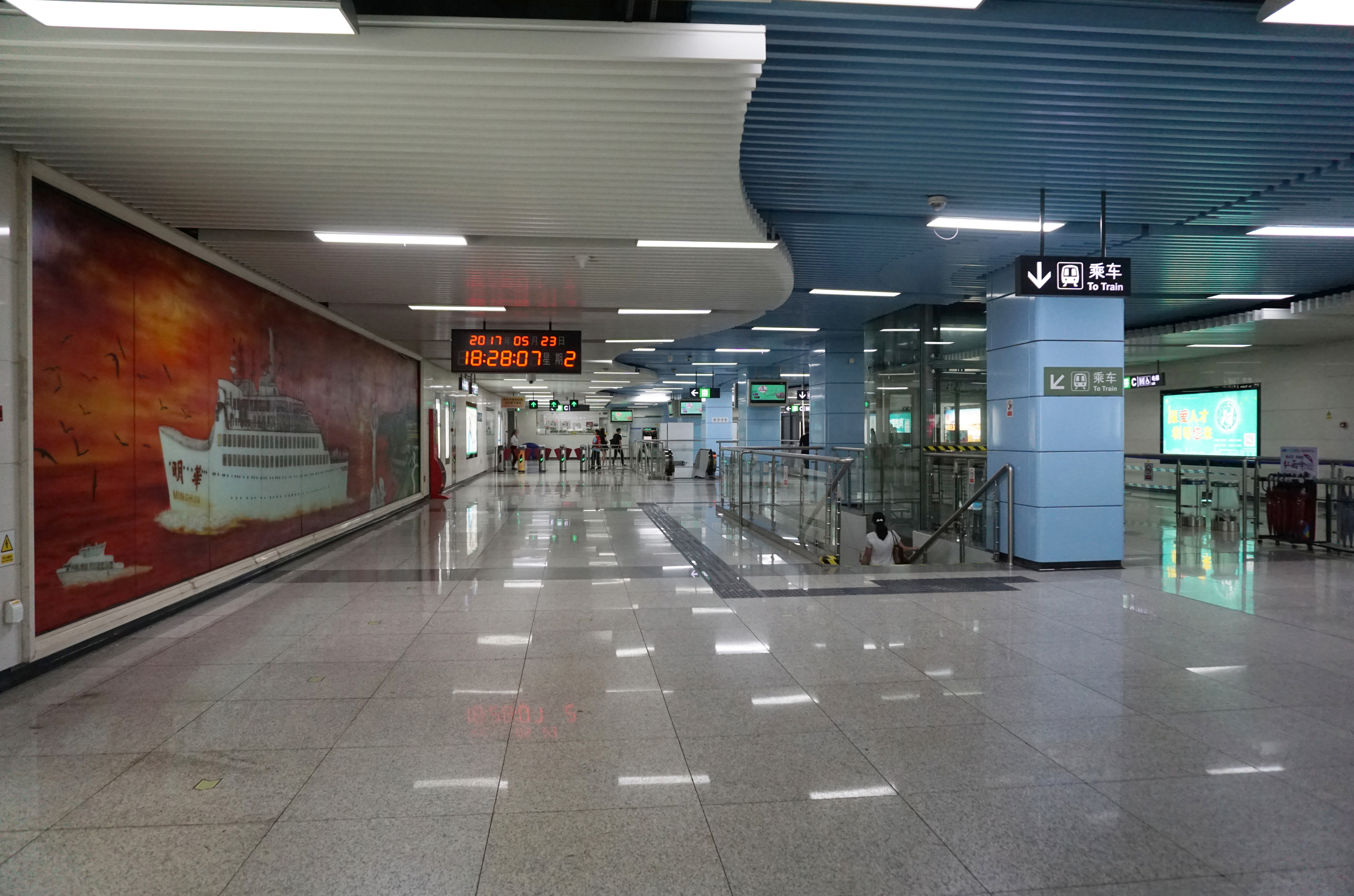 Sea World Station in Shekou, Shenzhen.